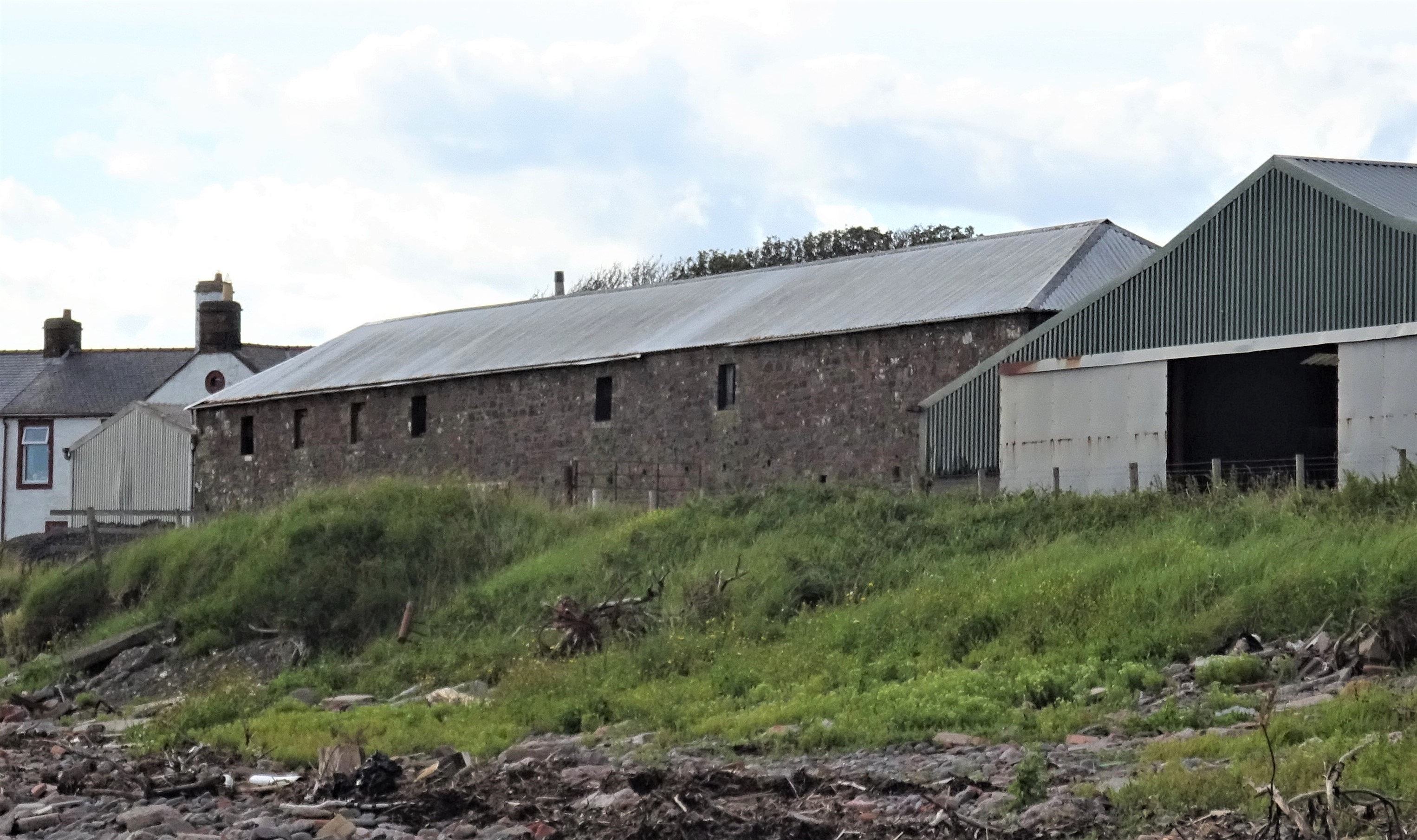 Newbie Mains Farm, byres, Dumfries and Galloway. Built with stones from the old Newbie Castle which stood nearby.